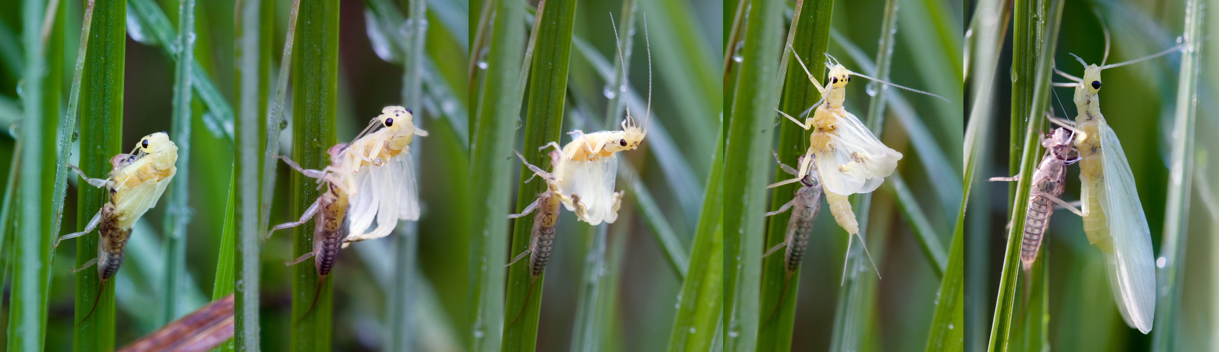 A Perlodid stonefly ((Isoperla sp.) also called stripetail, or springfly, hatches. The larva left the water and climbs on a stalk, tree branch etc. The backseam splits open and the imago left the larva hull (Exuvie)